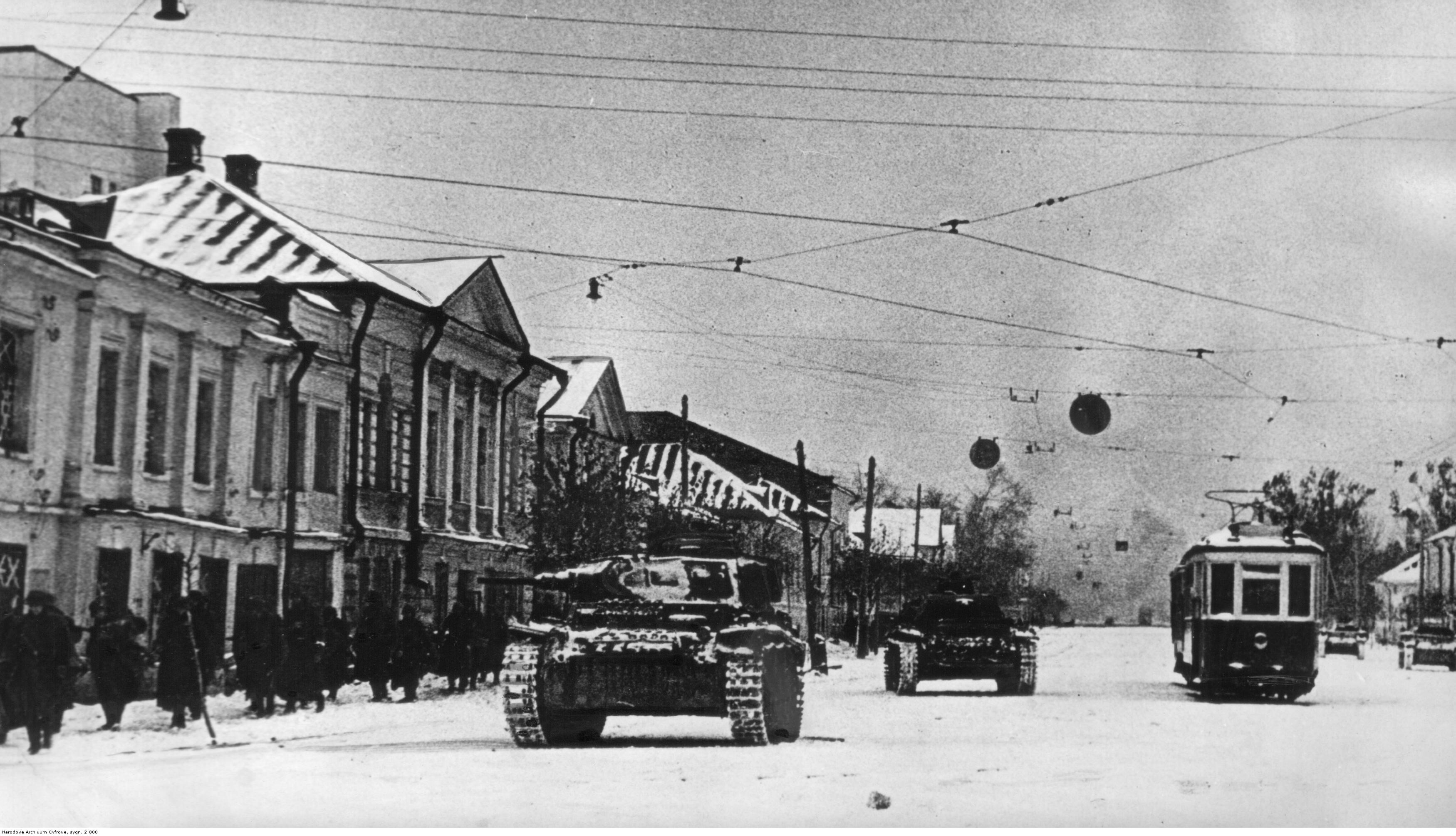 German troops on Sovetskaya Street in Tver. This historical block was soon destroyed, with only one structure still standing.